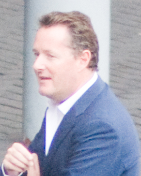 Piers Morgan filming Britain's Got Talent.